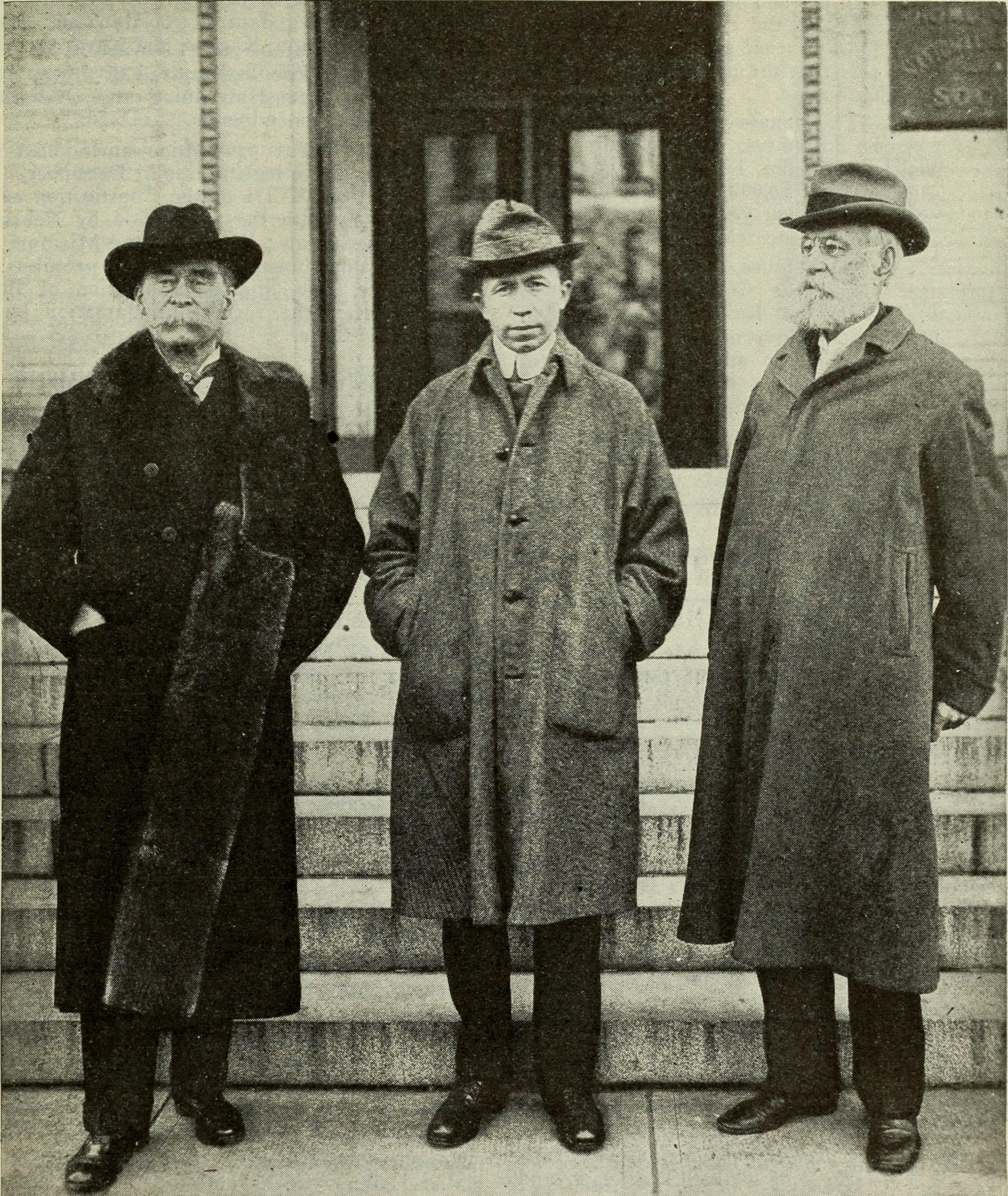 Title: Review of reviews and world's work Year: 1890 (1890s) Authors: Subjects: Publisher: New York Review of Reviews Corp Text Appearing Before Image: (Q Inieriiatioual Kilrn Service MACHINE GUNS IN THE BERLIN STREET FIGHTING(As in Russia two years ago, so also in Germany during the past few weeks have the Radical Socialistswaged a counter-revolution. Press reports told of the .bombardment of the imperial palace—the defensesof which are shown in the pictures above. They also told of the evacuation of other strategic buildings) RECORD OF CURRENT EVENTS 135 Text Appearing After Image: @ Harris & Ewing. Washington THREE EMINENT AMERICAN ARCTIC EXPLORERS-ADMIRAL PEARY, VILHIALMUR STEFANSSON. AND MAJOR-GENERAL A. W. GREELY (On January 10 the Hubbard Gold Medal, an award by the National Geographic Society, was presentedto Mr. Stefansson, who contributes an article on Roosevelt as an explorer to this number of the Review(page 165). In acknowledging the medal, Mr. Stefansson said that the northern sections of Canada andAlaska would soon be among the greatest grazing regions on earth) Benedict at the Vatican, visits historic places inRome, and leaves for Paris with stops at Genoa,Milan, and Turin. January 7.—The President returns to Paris, andthe full American delegation confers with PremierClemenceau. PROCEEDINGS IN CONGRESS December 18.—In the Senate, Mr. Knox (Rep.,Pa.) criticizes the Presidents proposal for thecreation of a League of Nations as part of the work of the Peace Conference; an amendment tothe Revenue bill is adopted, placing an extra 10per cent, ta